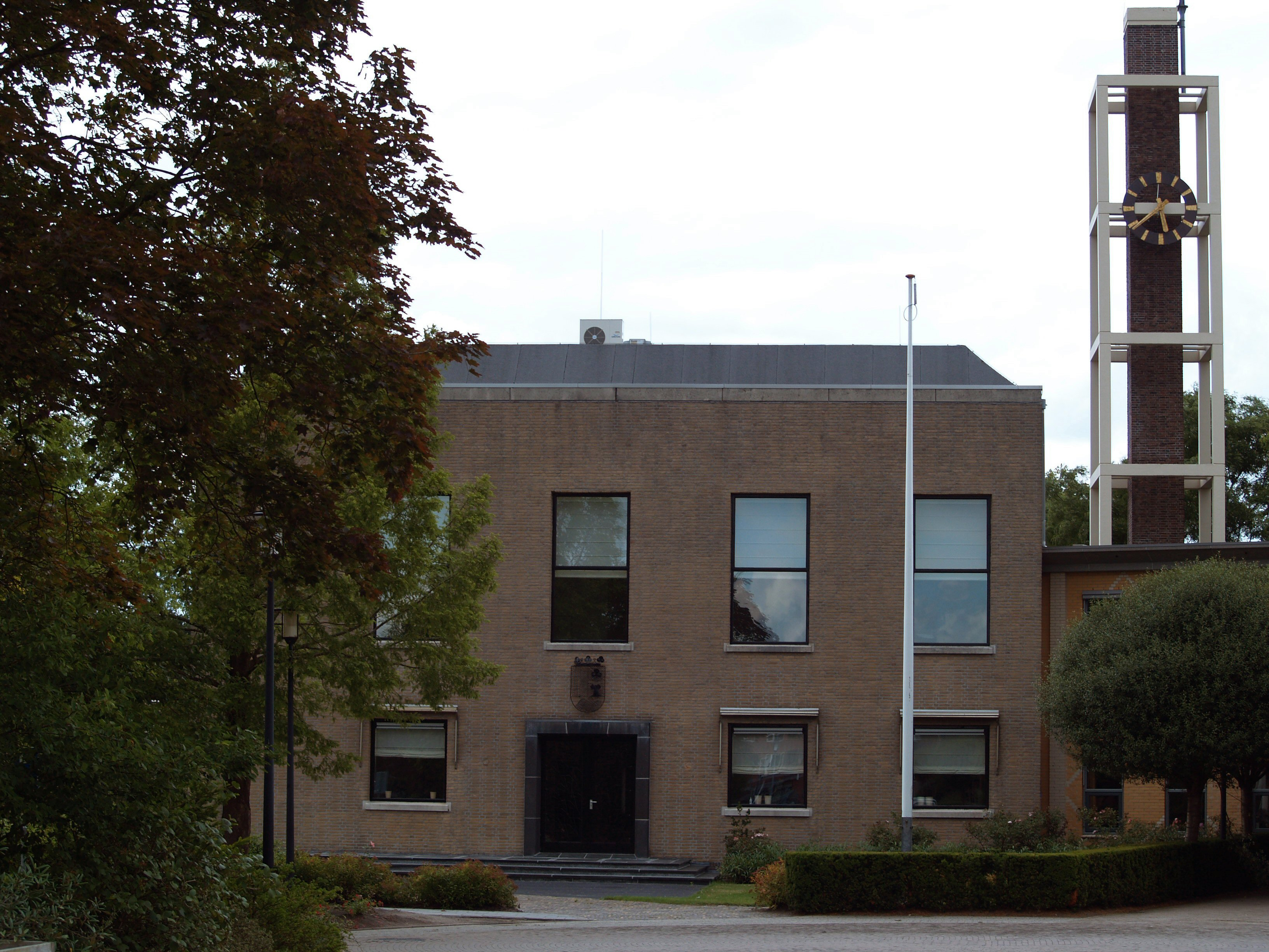 Townhall of Marum, The Netherlands